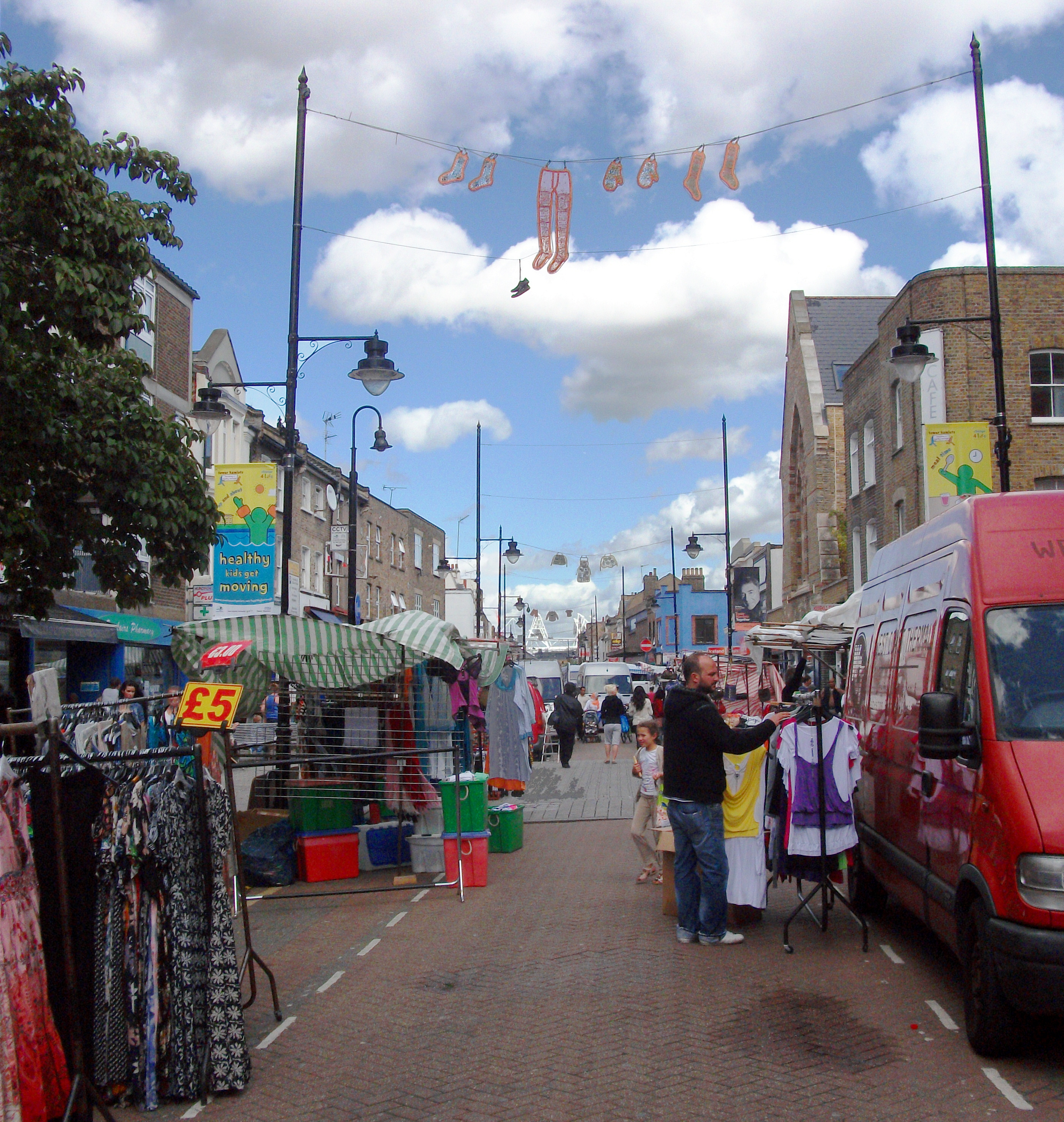 Always a colourful and friendly place, in Old Ford, and is in the East End of London. The market promotes itself as the "Heart of the East End".